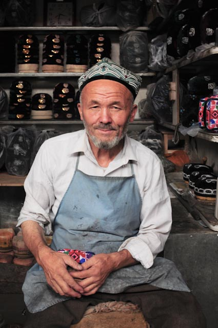 Dopa Maker, traditional Uyghur hats; in Kashgar, Xinjiang, China.